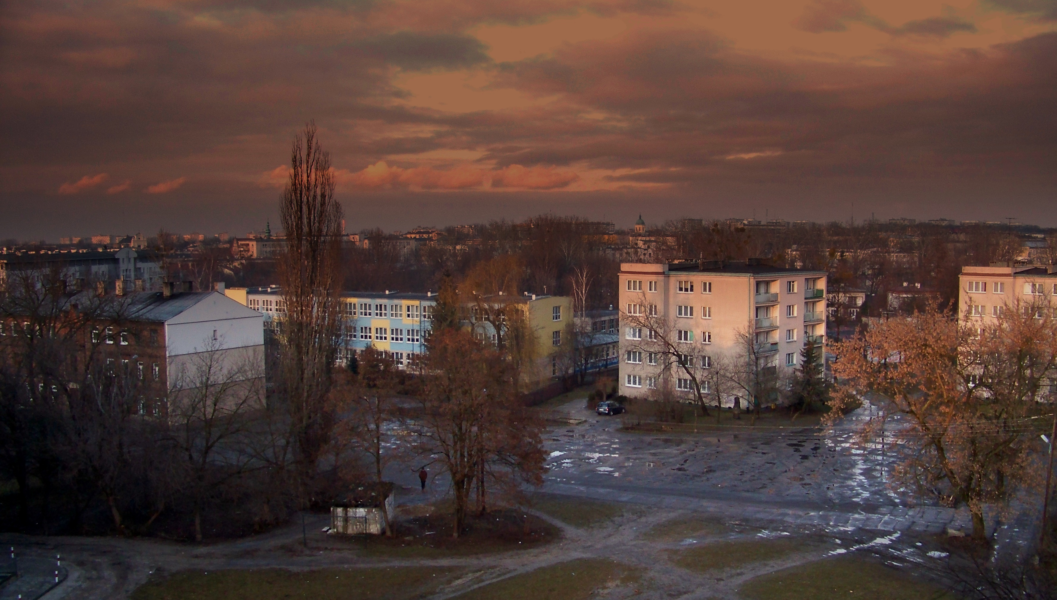 Poland, Radom, School